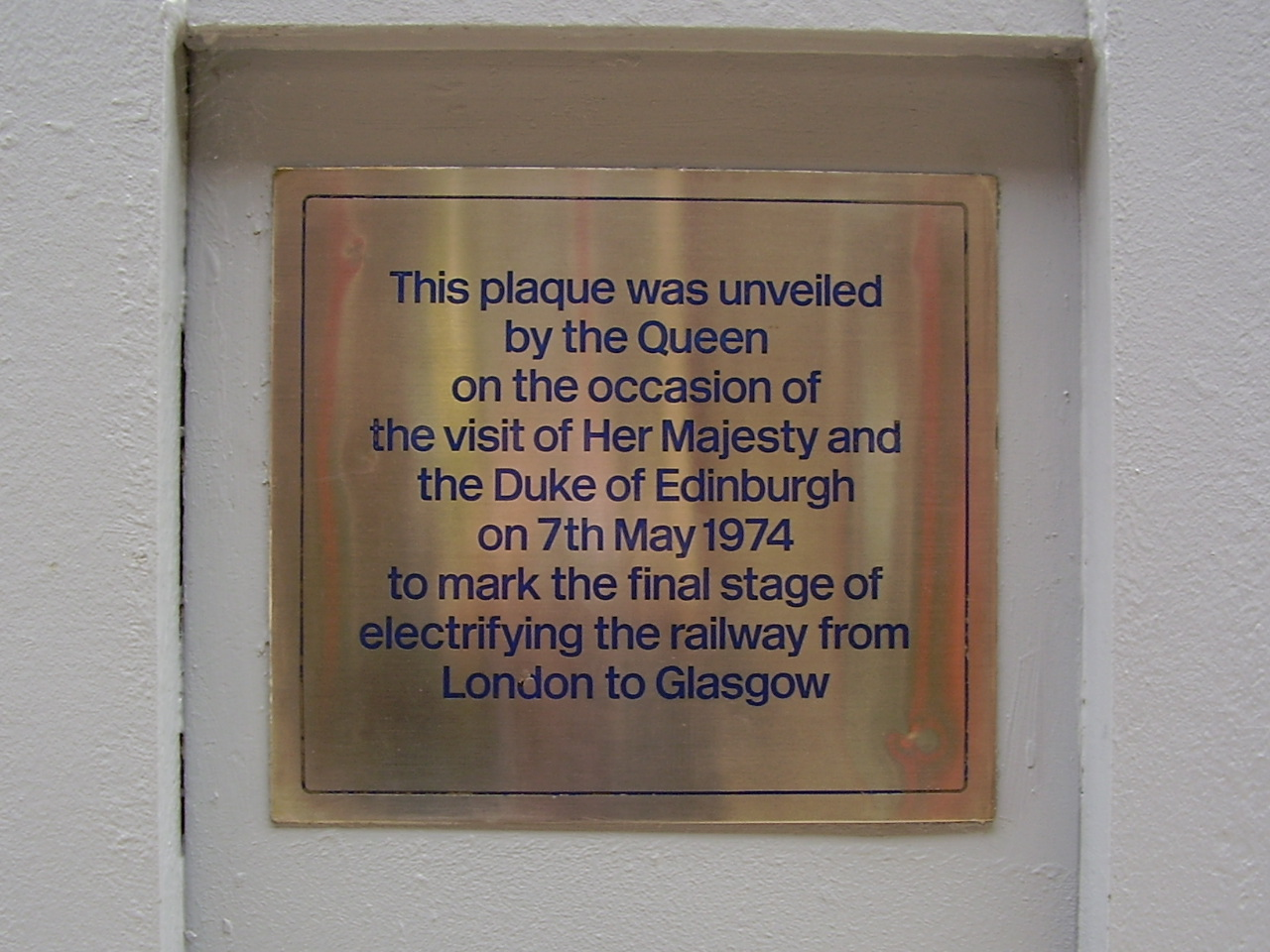 Preston railway station plaque commemorating visit of Queen Elizabeth II and the Duke of Edinburgh to mark final stage of electrification of the London to Glasgow line